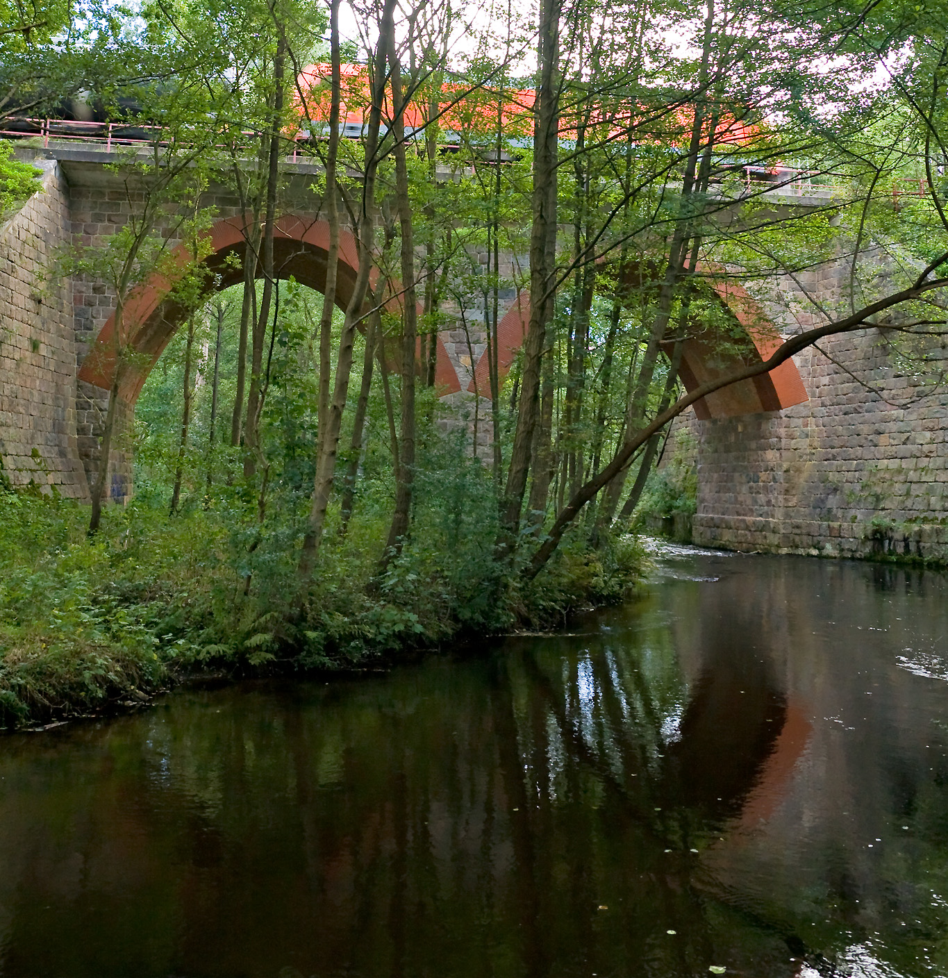 Railway bridge over the Seeve River between Jesteburg and Marxen in the district Harburg in Lower Saxony, Germany.